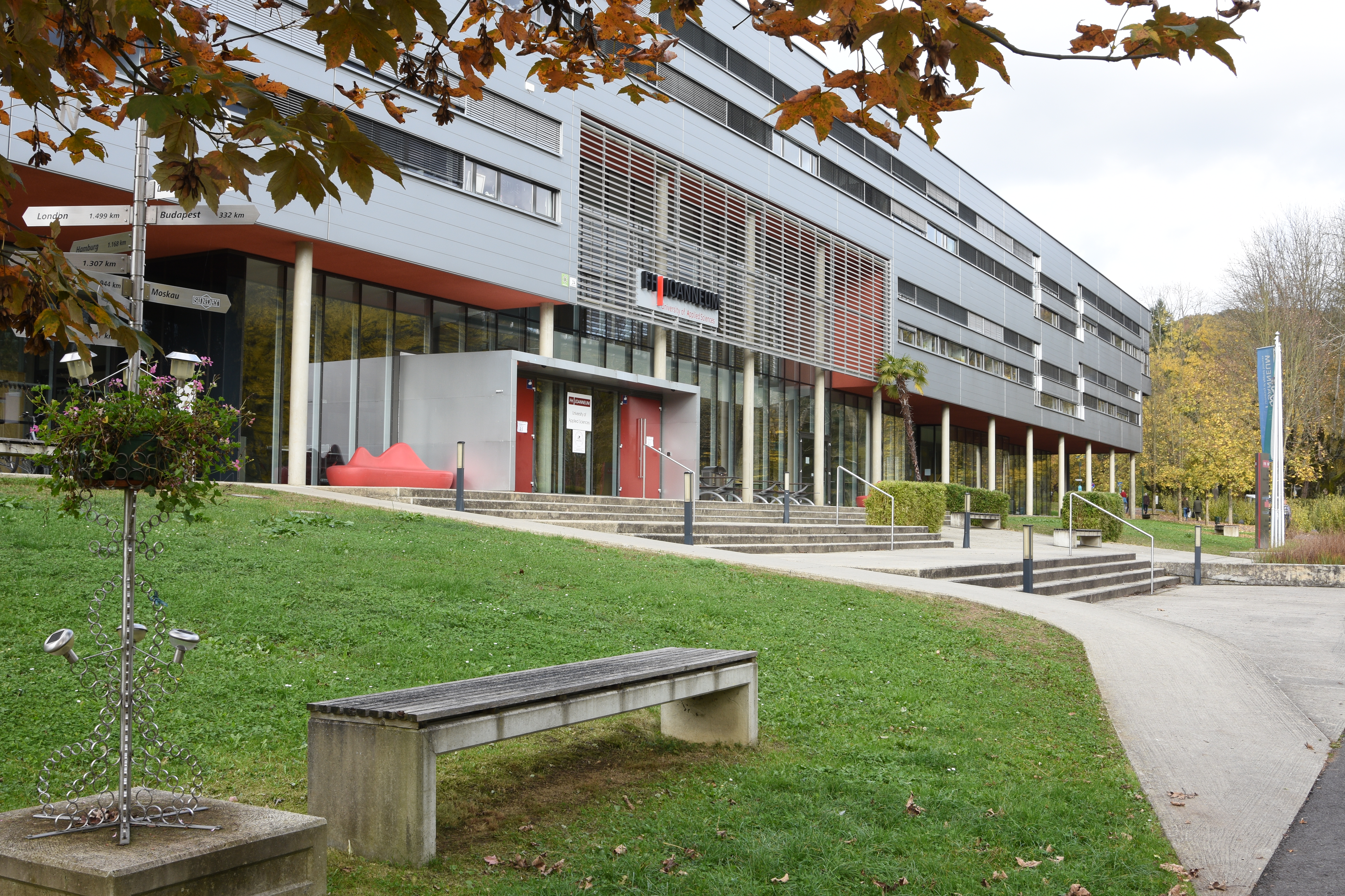 FH-Joanneum Bad Gleichenberg